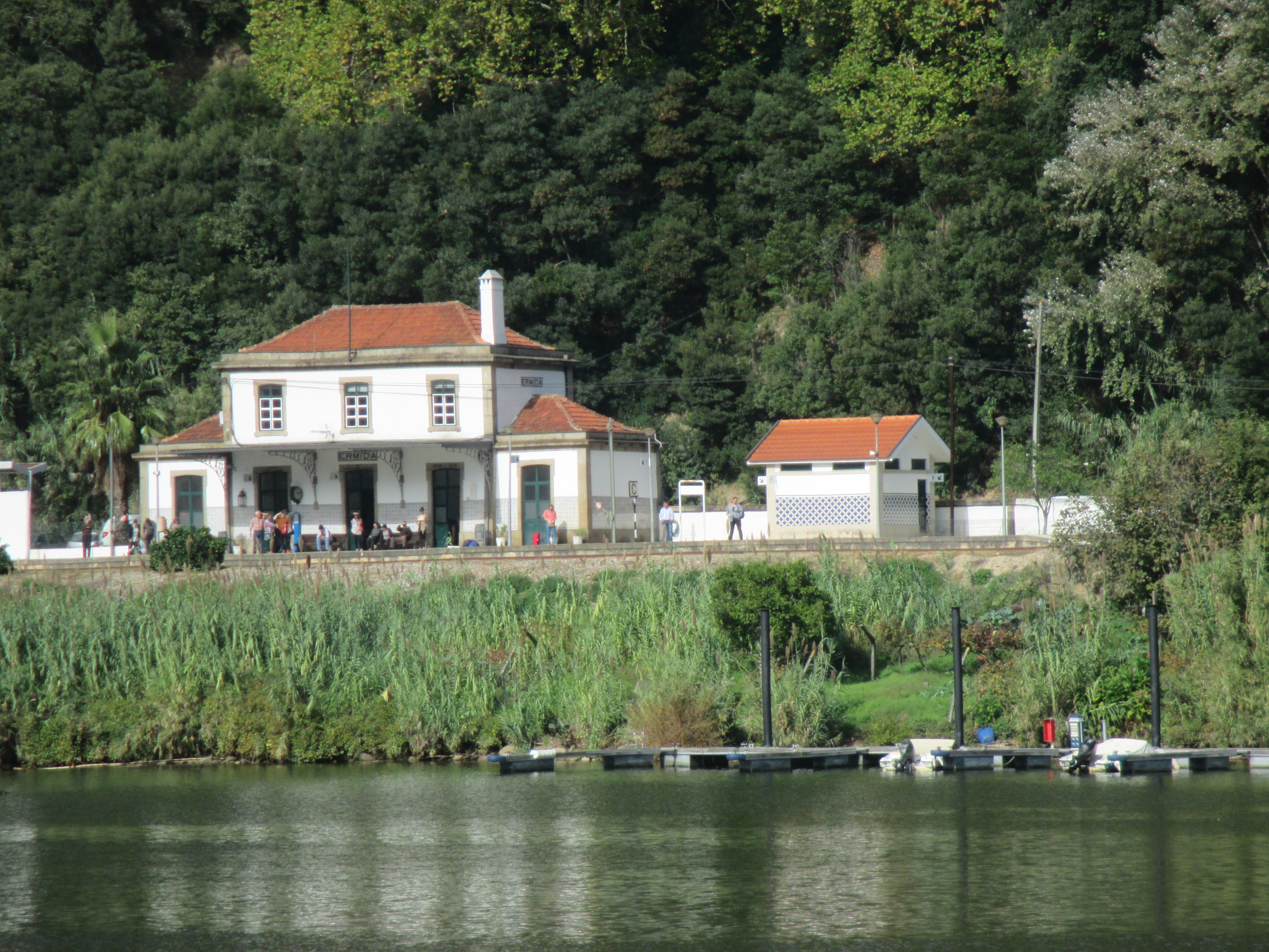 MV Douro Prince. The Linha do Douro railway line runs from Porto to Pocinho; it runs along the north bank from Régua to the Ponte da Farradosa bridge, across that bridge, then along the south bank to Pocinho. It once continued to the Spanish border and on to Salamanca. One of the stations. portugal douro riodouro riverdouro 2014 mvdouroprince